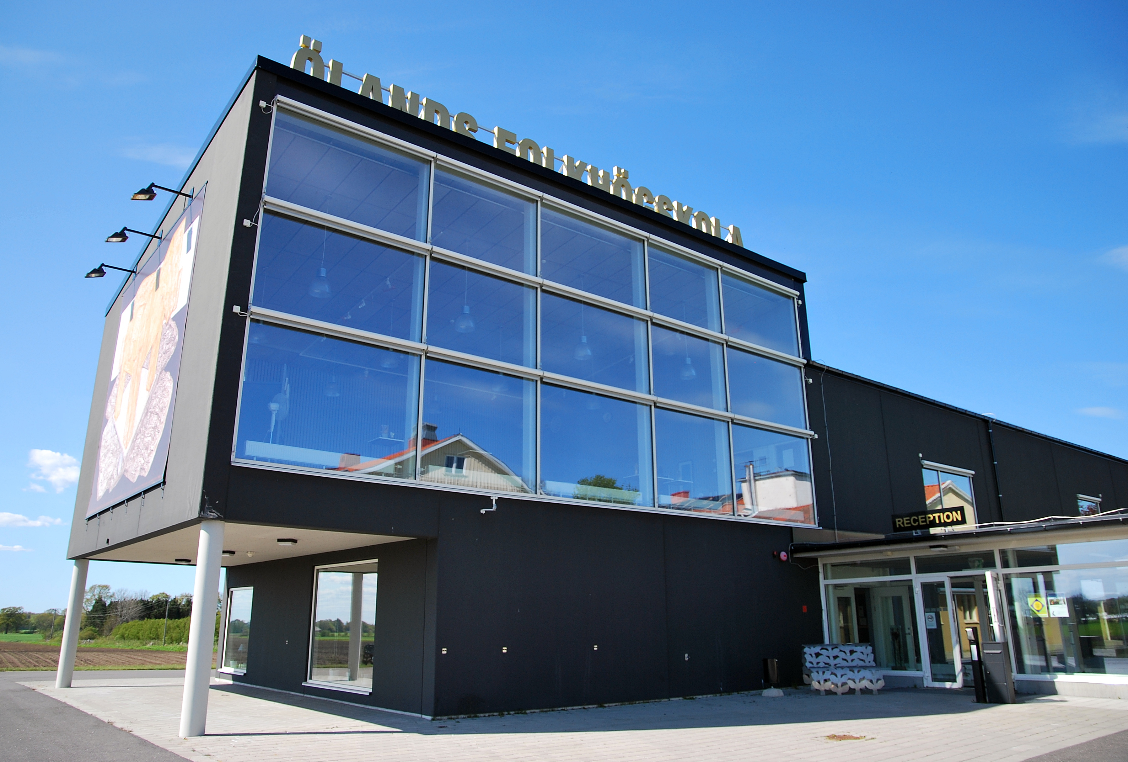 Konstens hus (the house of art) by Askhagen Arkitektkontor AB at the Öland folk high school in Skogsby on Öland, Sweden